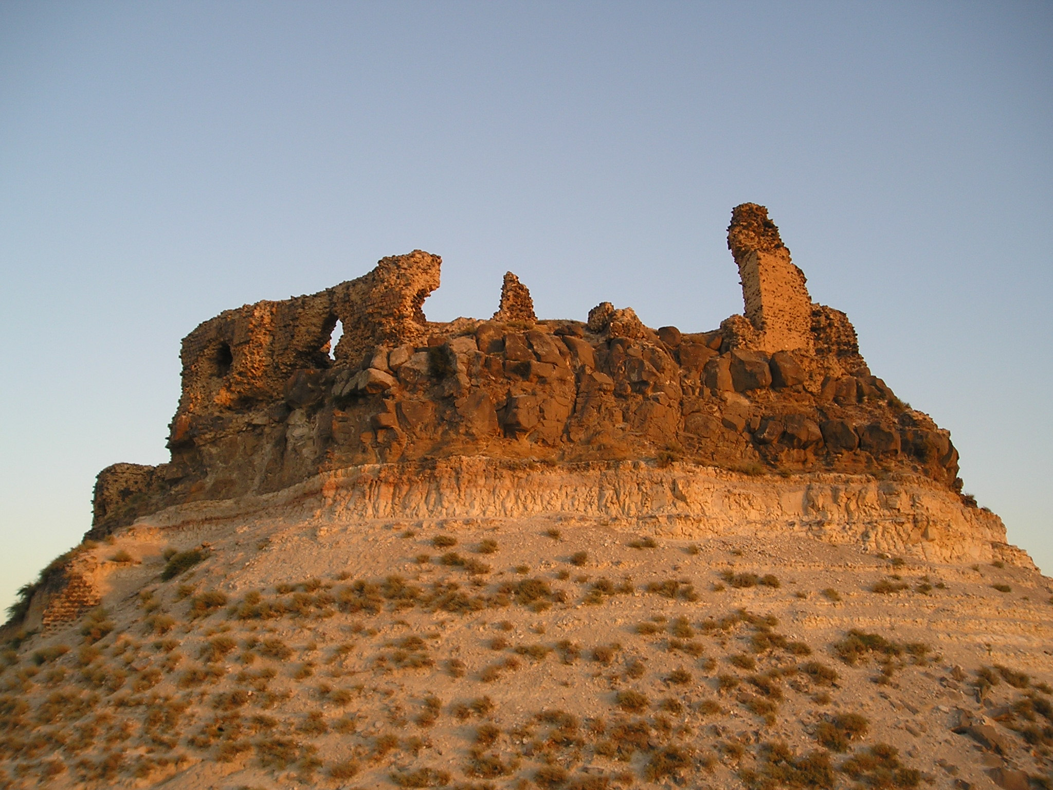 Shmemis (ash-Shmemis) castle near Hama, Syria